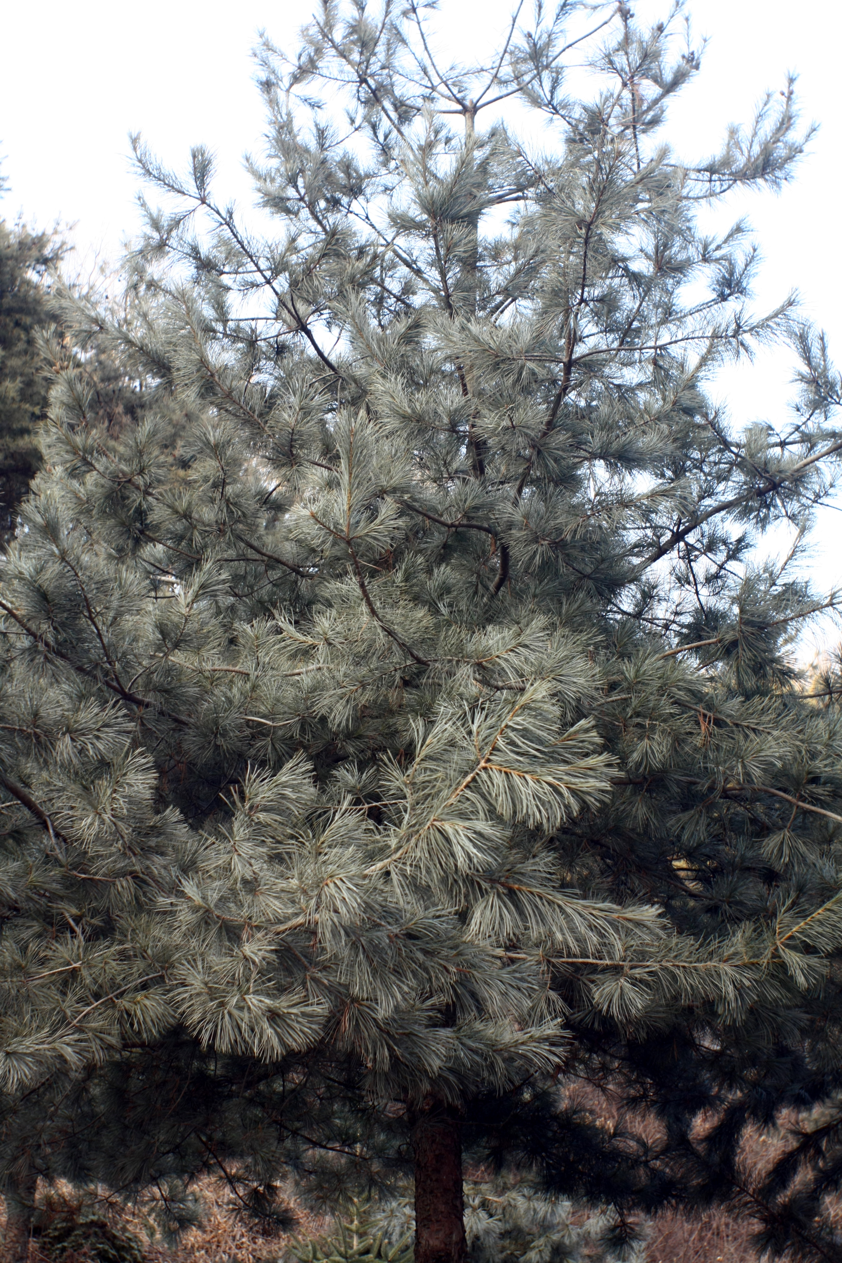 Pinus koraiensis in Anseong, Korea